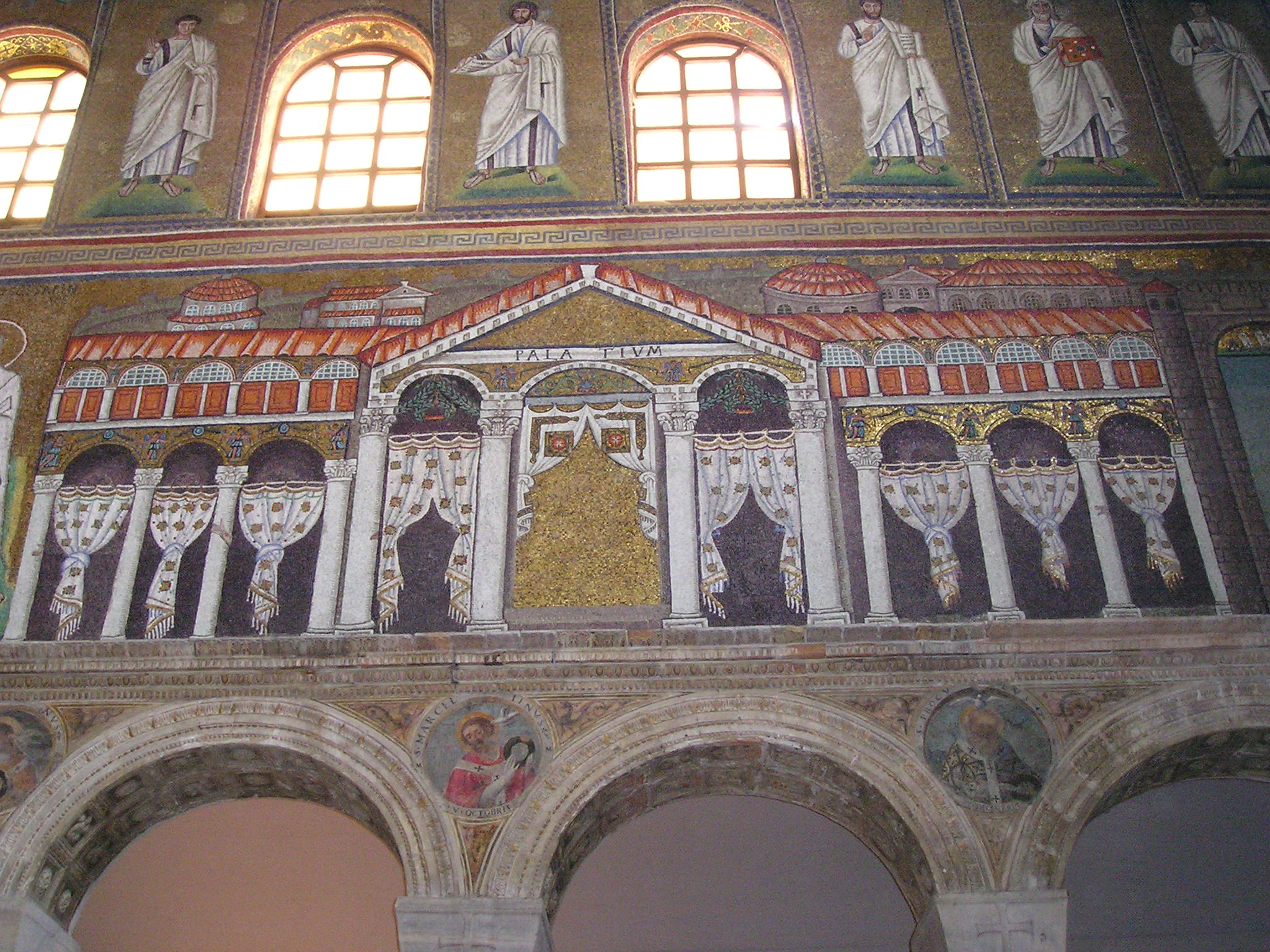 Basilica of Sant'Apollinare Nuovo in Ravenna, Italy: "The Palace of Theodoric". Mosaic of a Ravennate italian-byzantine workshop, completed within 526 AD by the so-called "Master of Sant'Apollinare". After the defeat of Theodoric, the wall mosaics in the Palace and Cathedral were redone by the Byzantines to remove Gothic features. The figures in this mosaic were replaced by curtains, presumably due to lack of time. Several remnants of the earlier work are visible, such as a portion of an arm on the third pillar from the left.